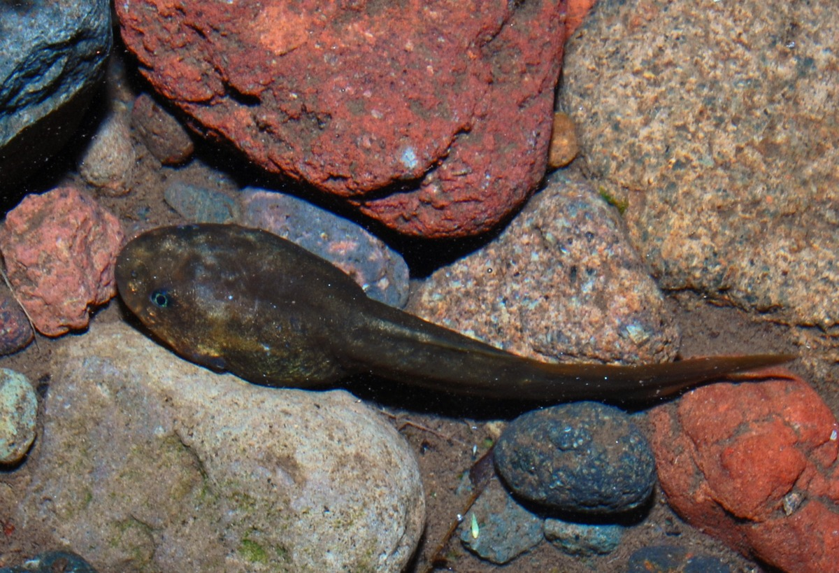 Leptobrachium hasseltii, tadpole from Ciapus leutik river, Calobak, Bogor, West Java, Indonesia